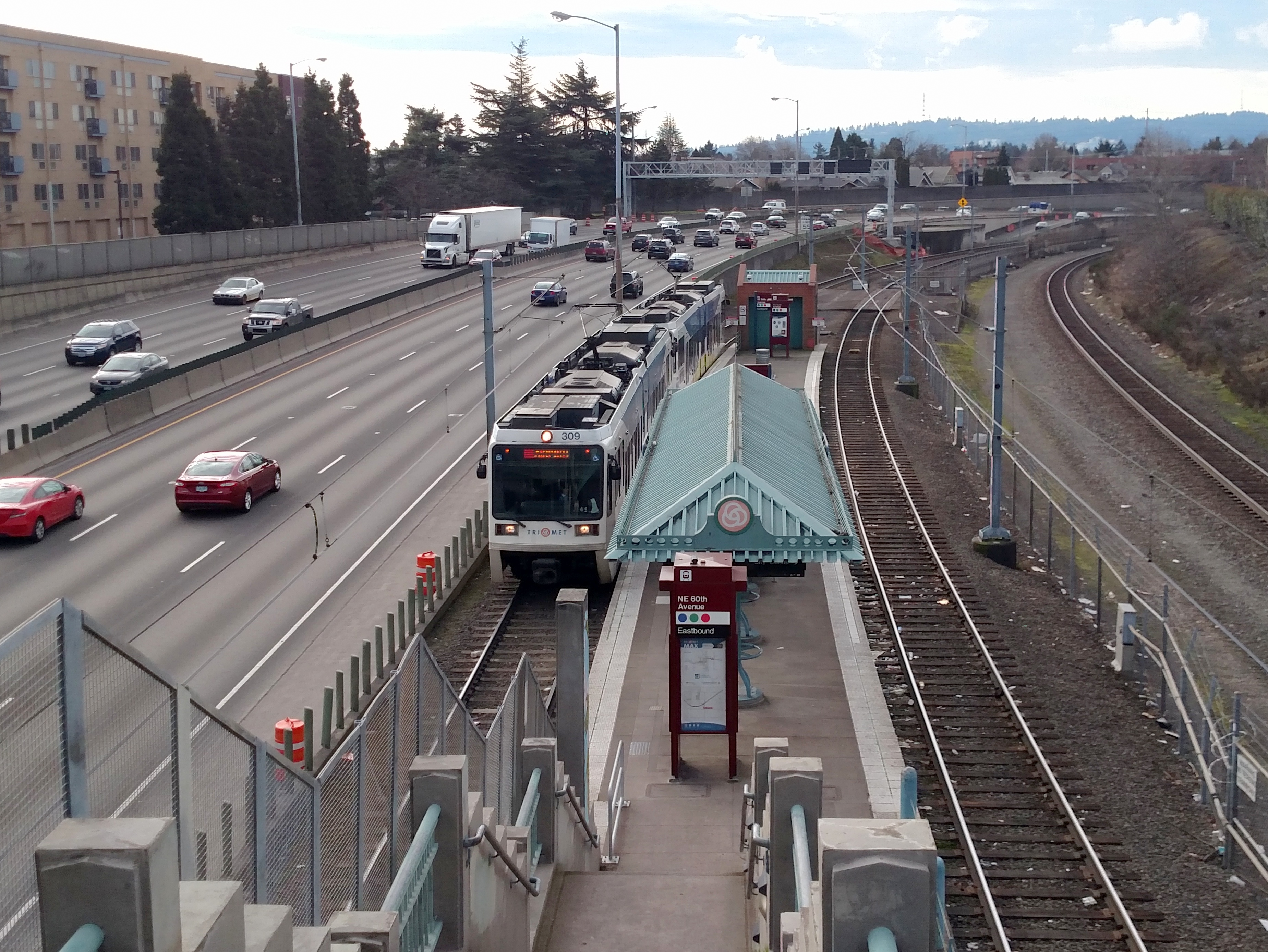 Eastbound train at Northeast 60th Avenue station in February 2018